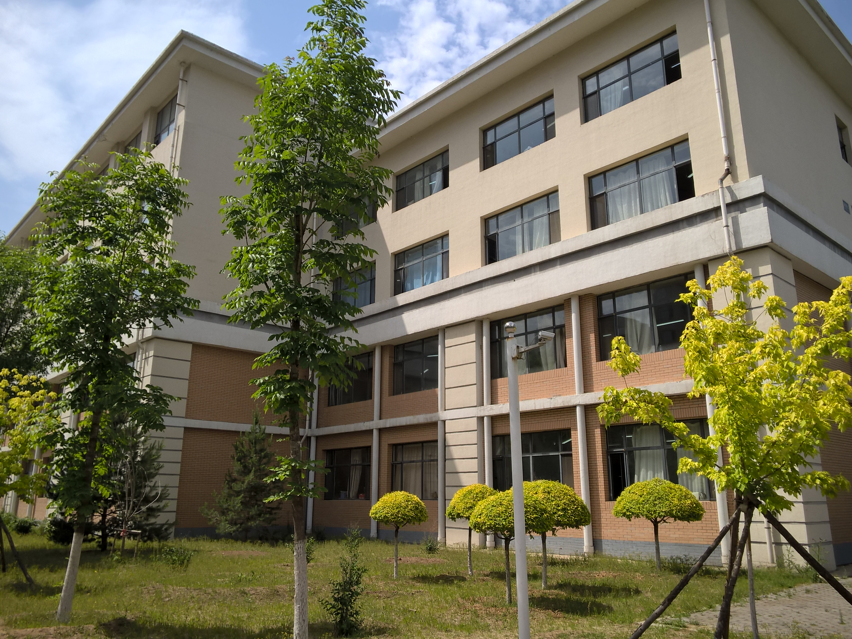 The school migrated from the old campus in Yinzhou District,Tieling City to its new campus in Fanhe Town,Tieling in 2011.